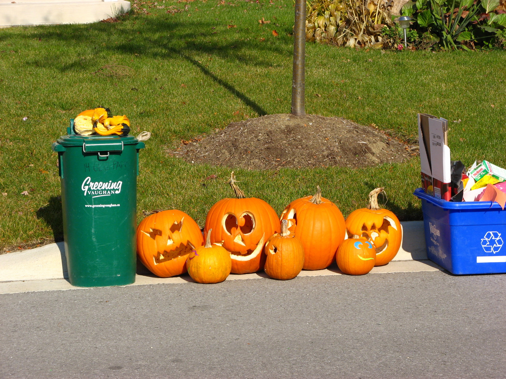 Jack-o'-lanterns made of carved pumpkins left at curbside after Halloween. Outside 14 Getz Park, Vaughan, Ontario, Canada.